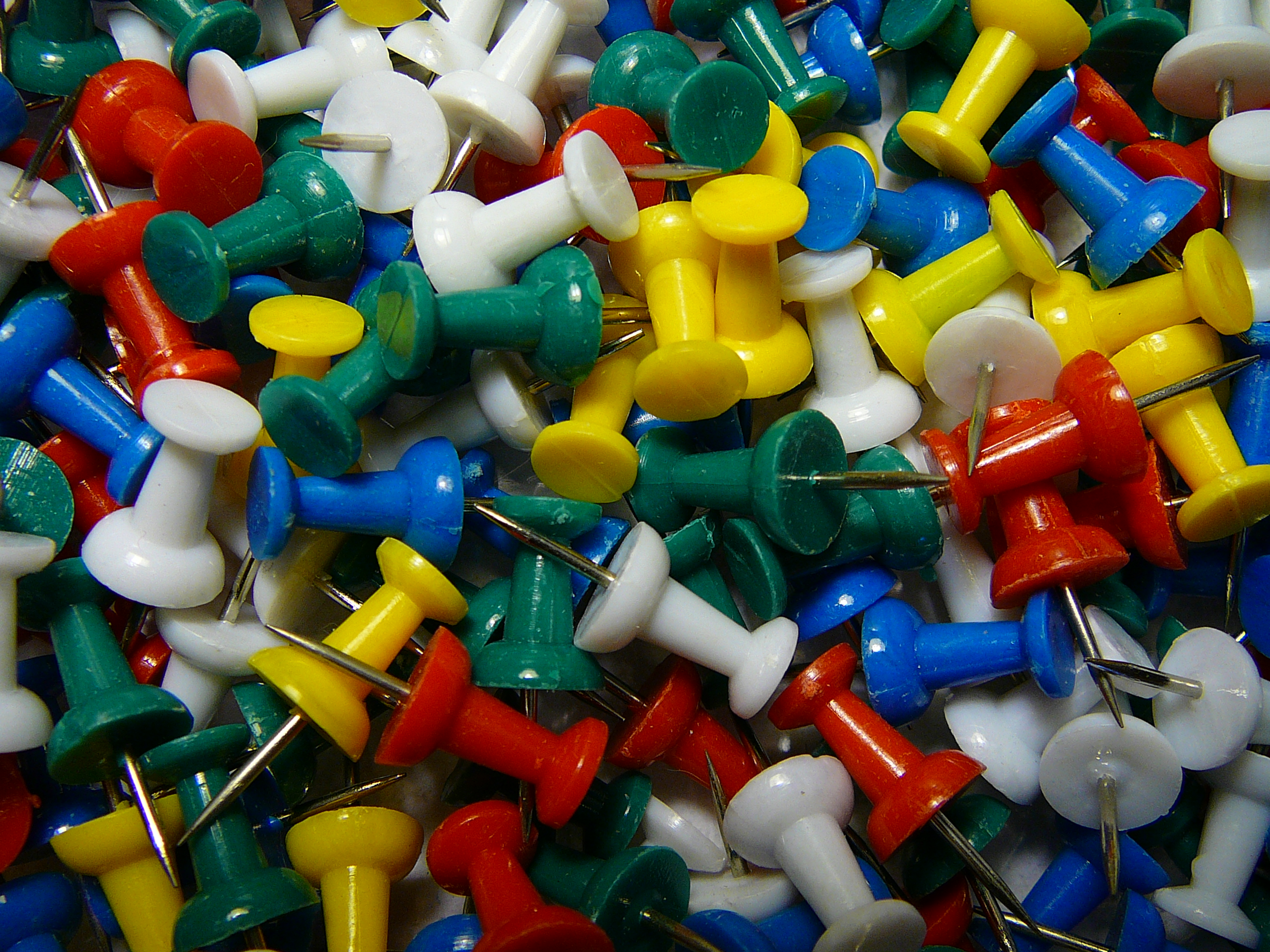 Box of thumbtacks / Box of push pins